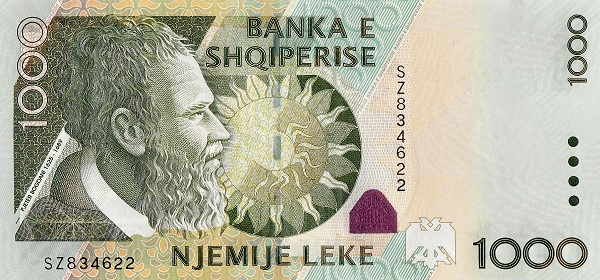 1000 Lekë of Albania in 2011 Obverse